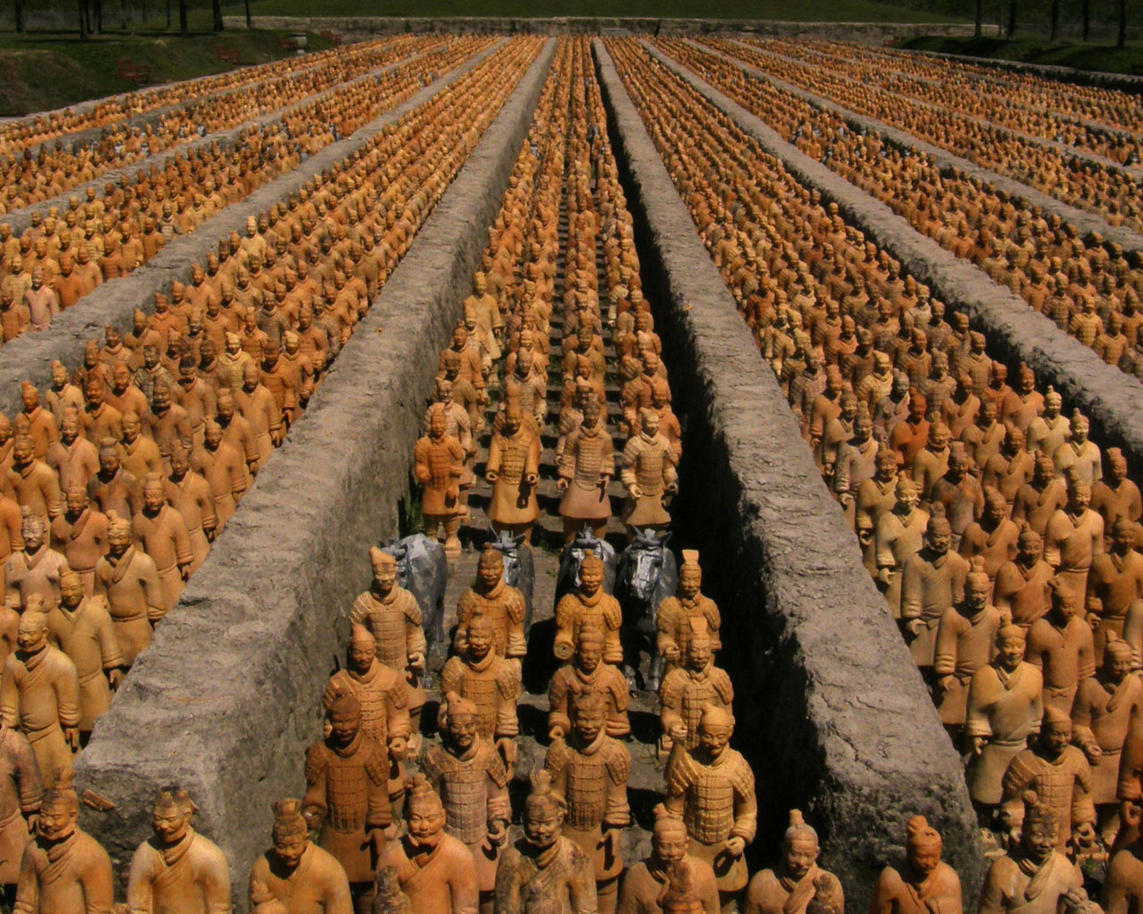 Terra Cotta Army replica at the Forbidden Gardens in Katy, Texas.